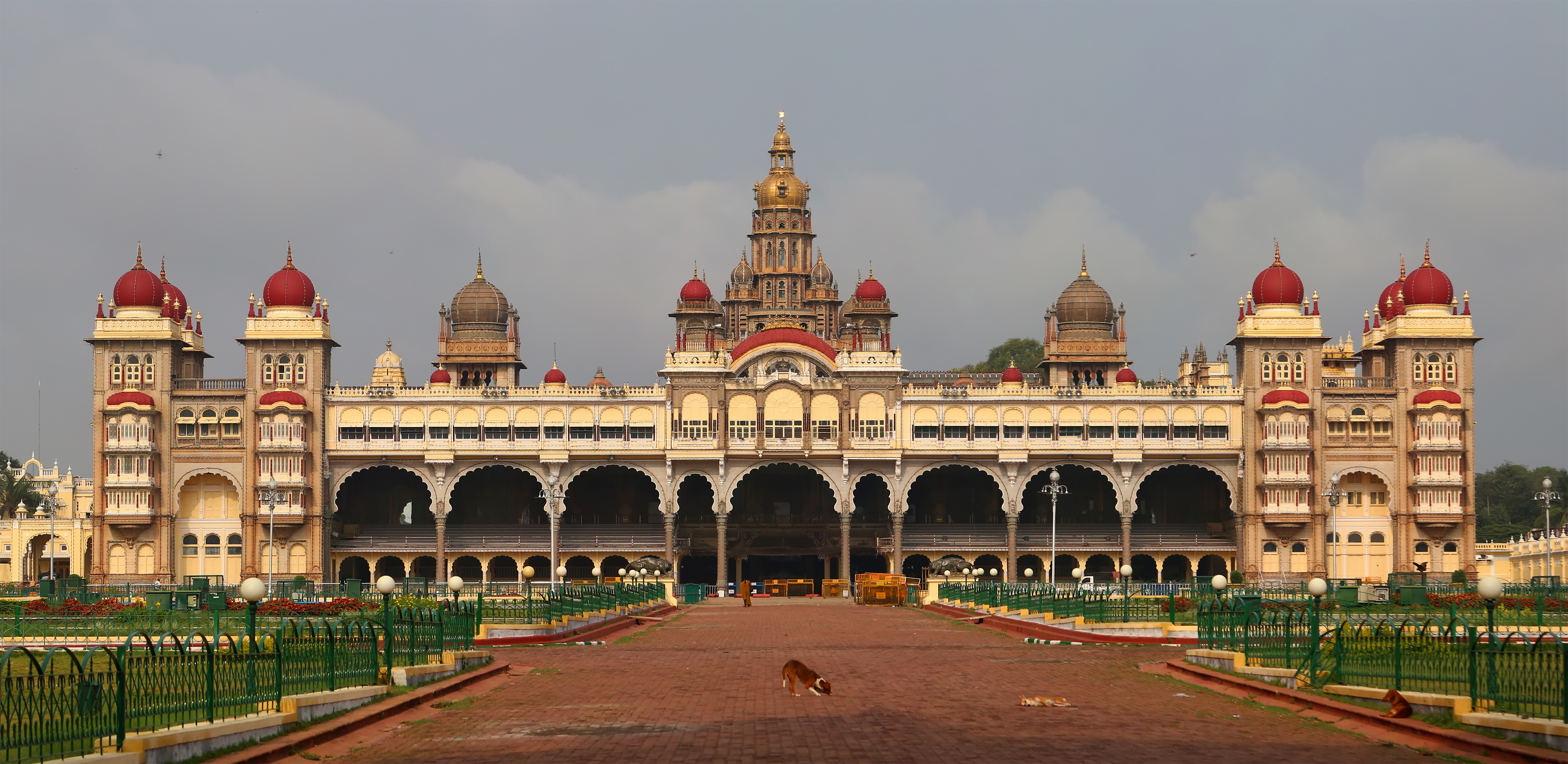 Front facade of the Mysore Palace in the morning